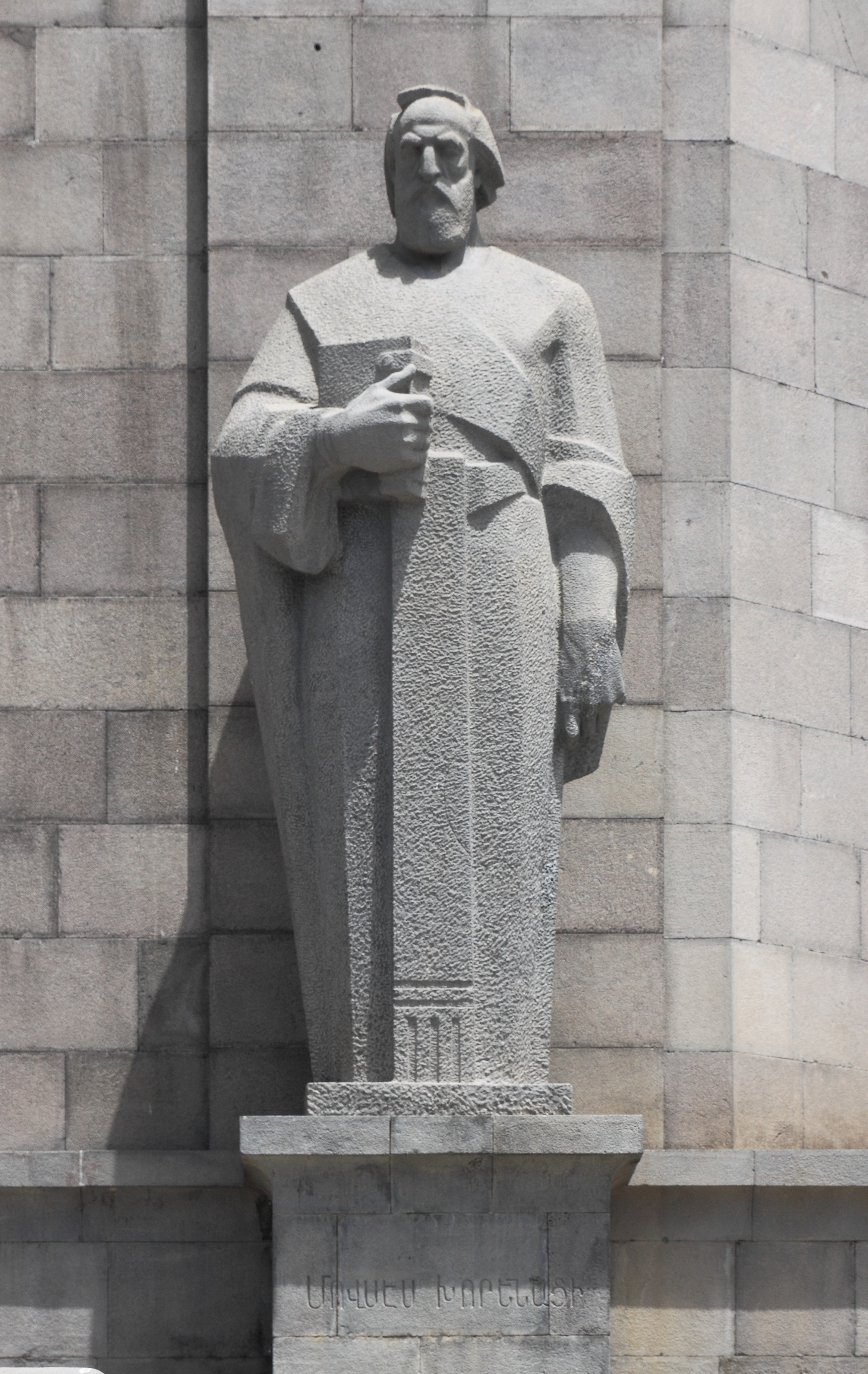 Statue of Movses Khorenatsi. Matenadaran. Yerevan, Armenia.